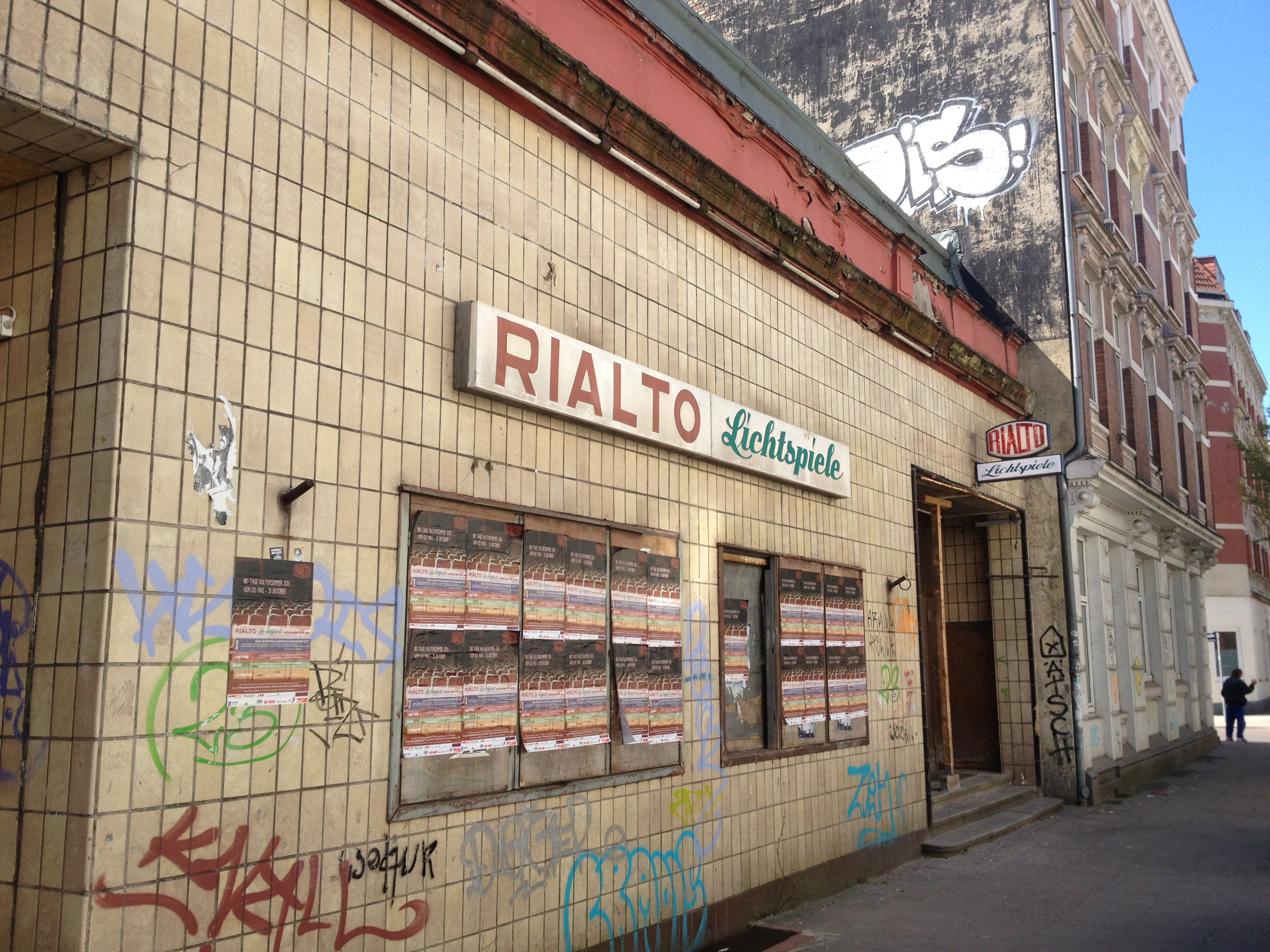 RIALTO Lichtspiele exterior view on 01.05.2013